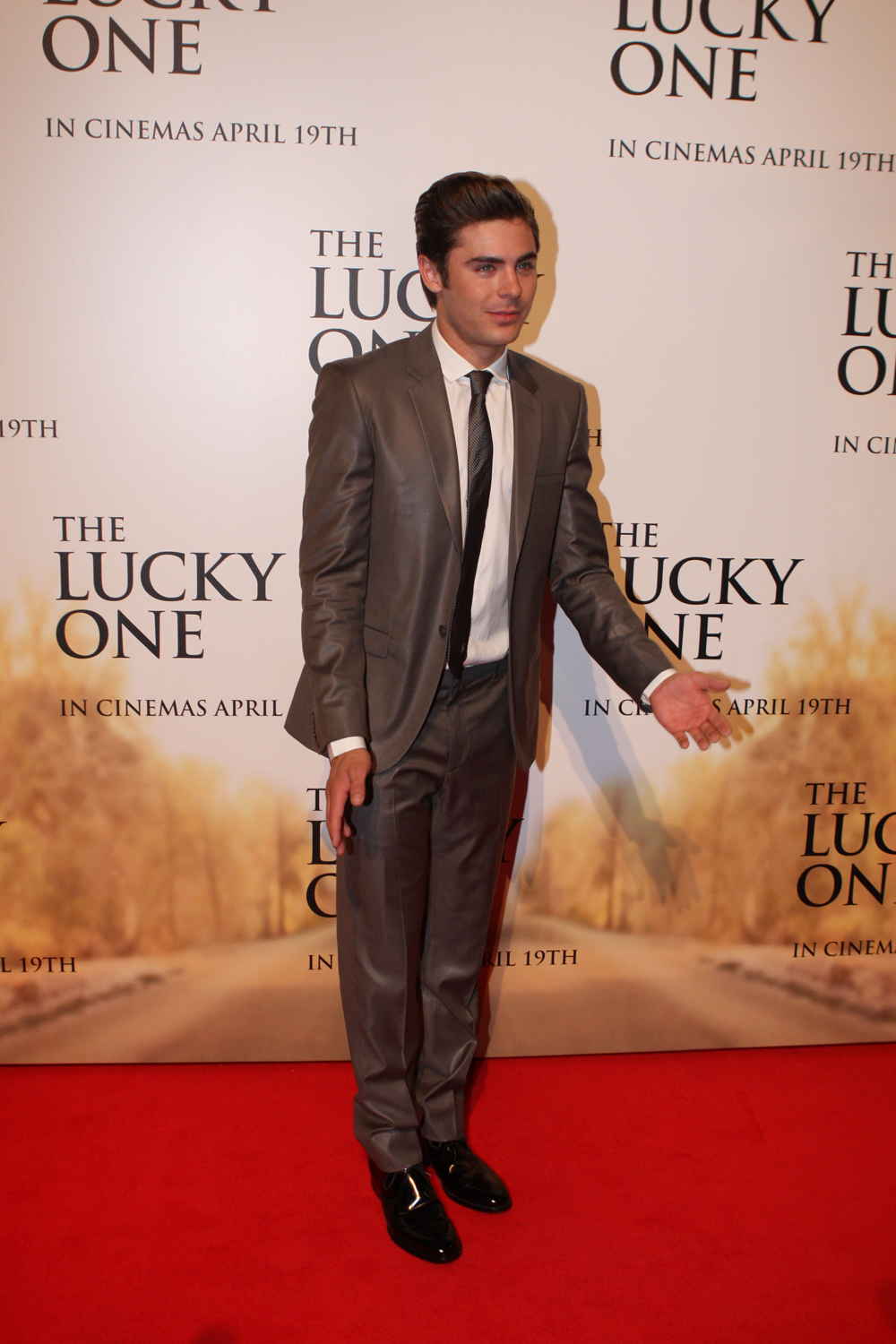 The Lucky One World Premiere At Bondi Juction, Sydney, Australia